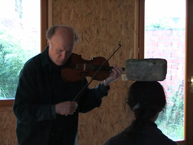 Malcolm Goldstein Violin.